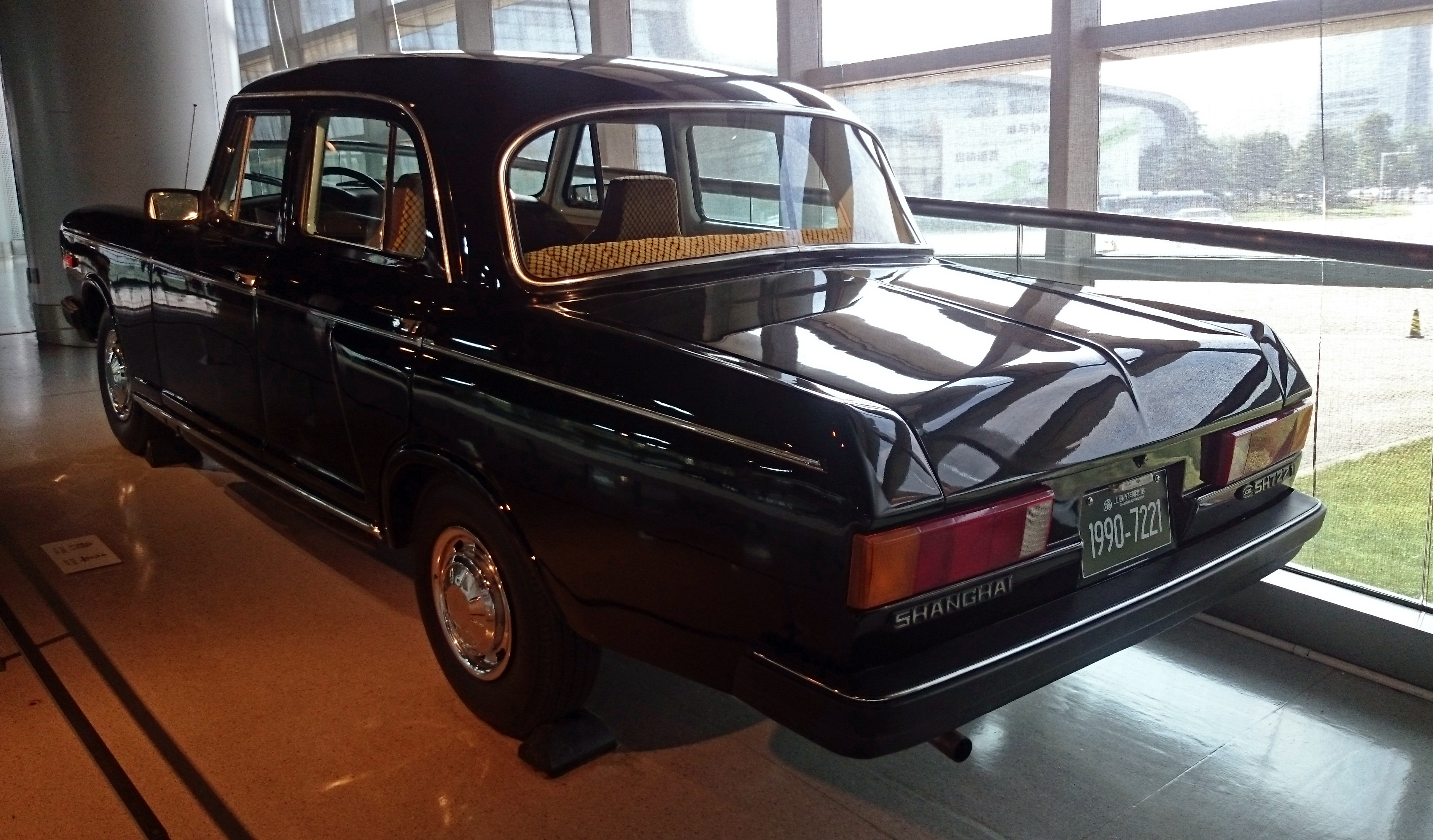 1990 Shanghai SH7221 Sedan. Its taillight, steering wheel, front and rear bumper are the same of Shanghai-VW Santana's.